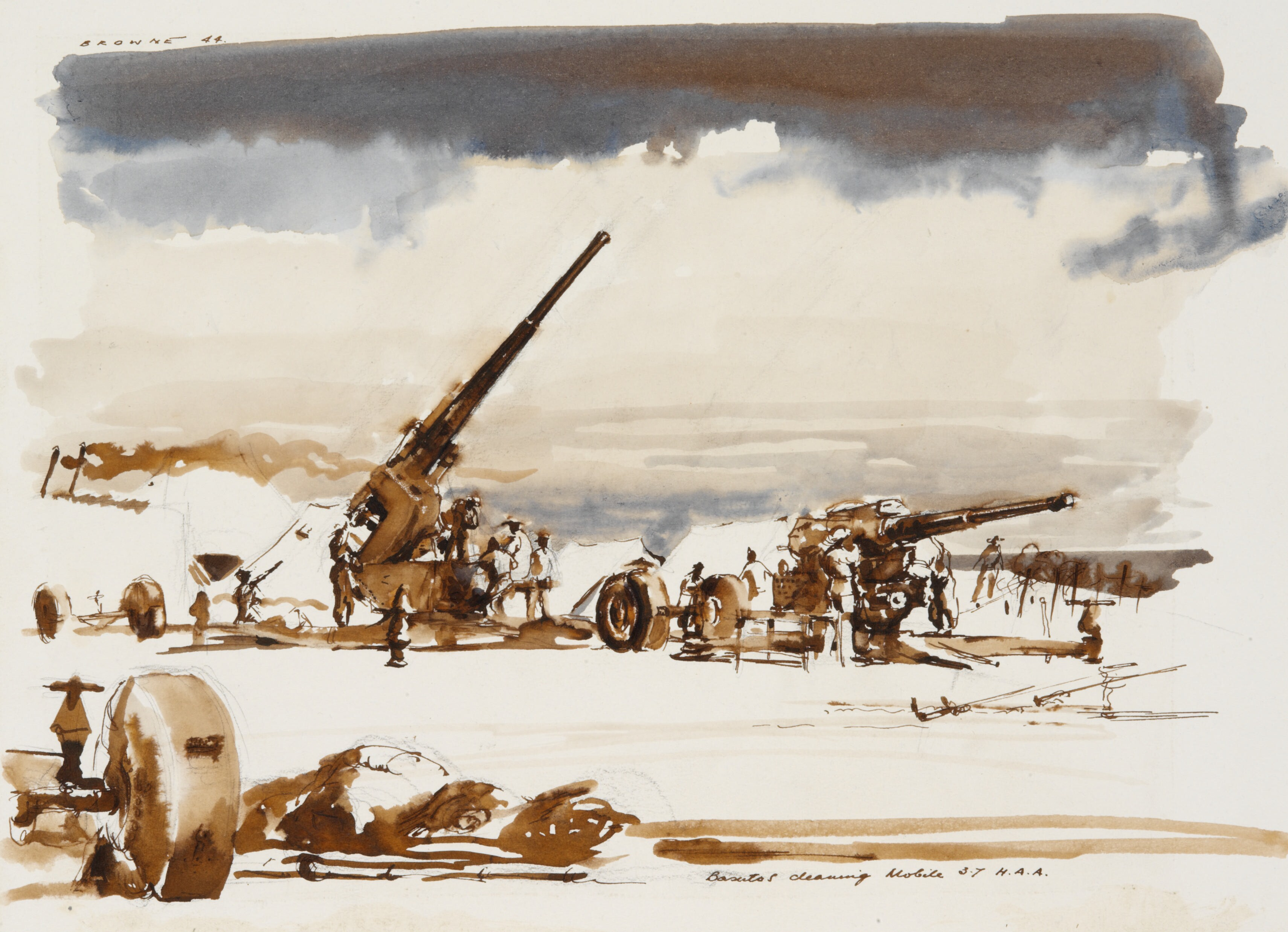 Basutos Cleaning a Mobile 3.7 Haa Gun image: A group of Basutos gather around two field guns. One is pointing upwards at a low, grey sky and a man stands on its base.